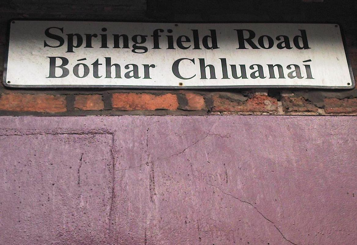 Bilingual street sign at the start of the Springfield Road in Belfast